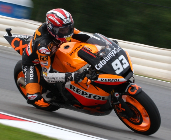 Marc Marquez 2011 Brno